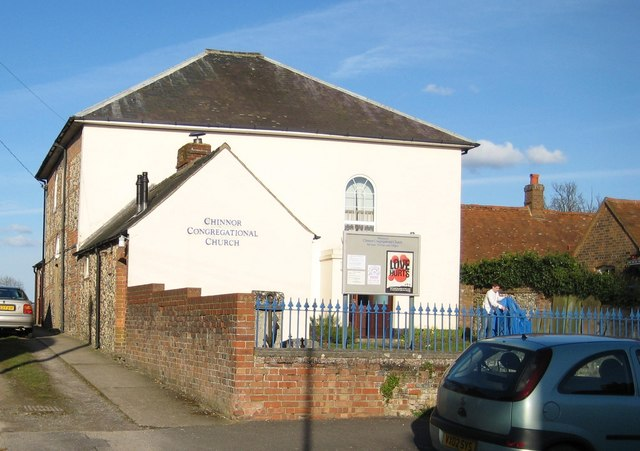 Chinnor Congregational Church, Oxfordshire: built in 1805 and enlarged in 1811.